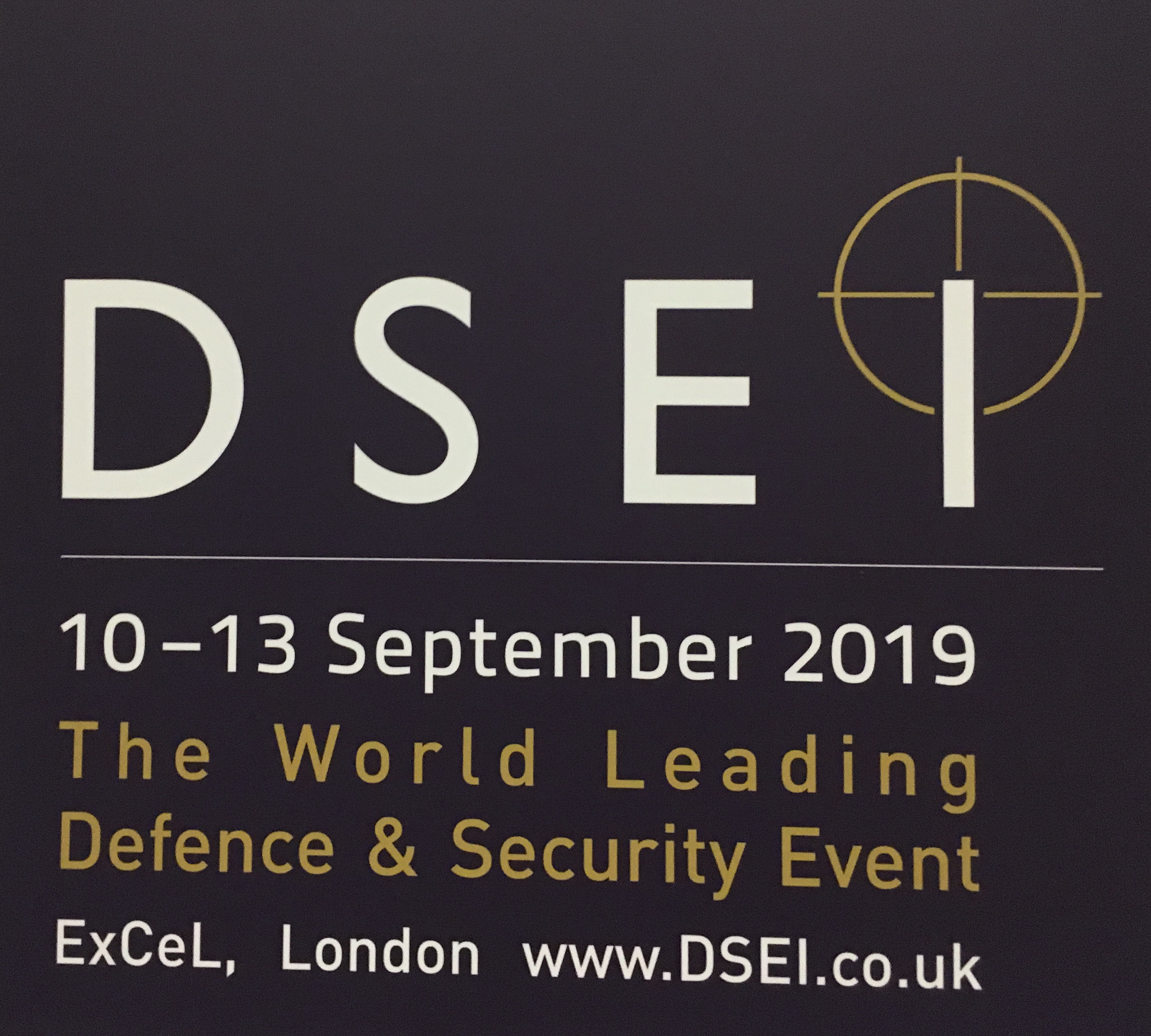 DSEI 2019 Logo